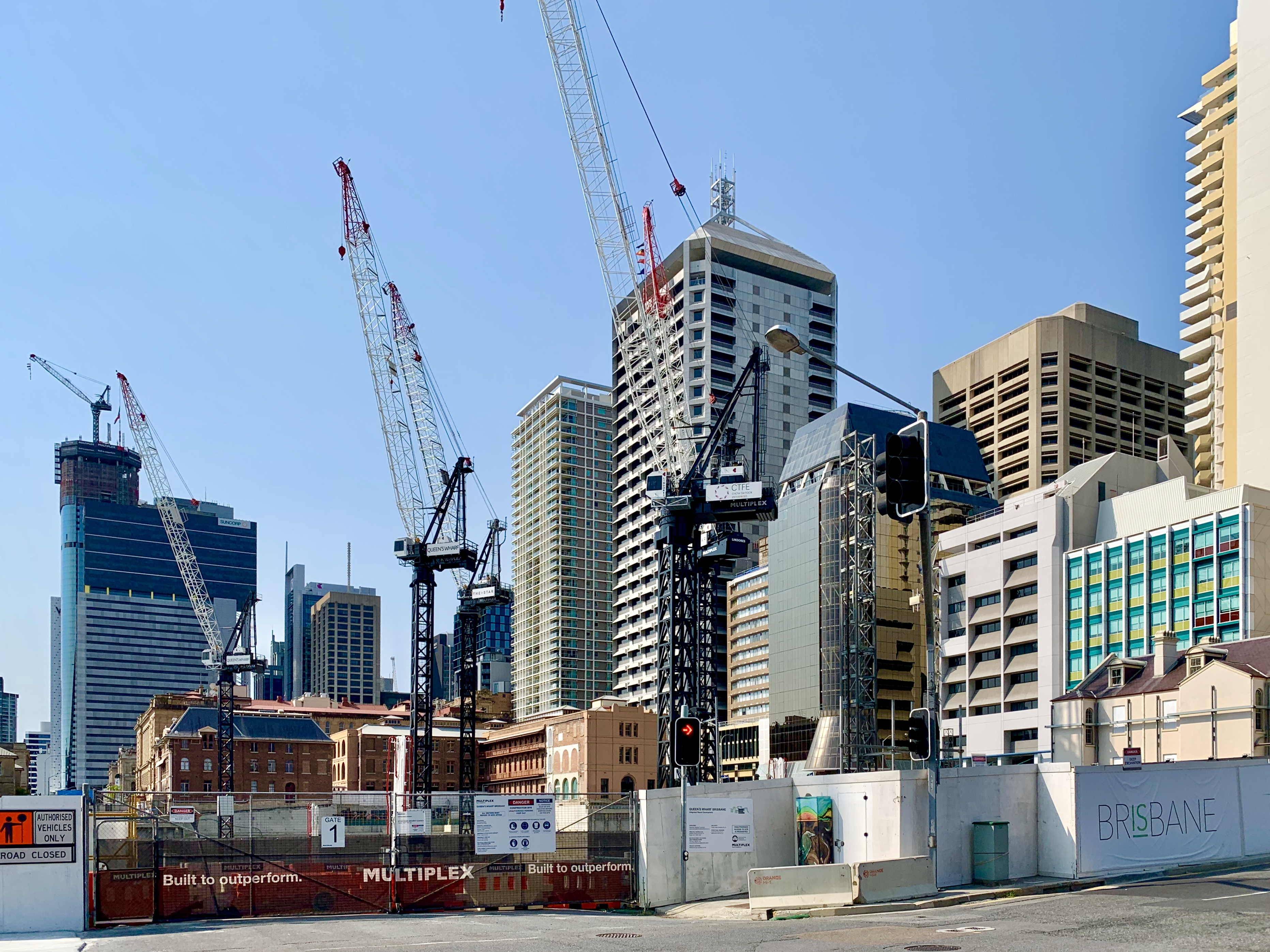 Queen’s Wharf, Brisbane construction in December 2019